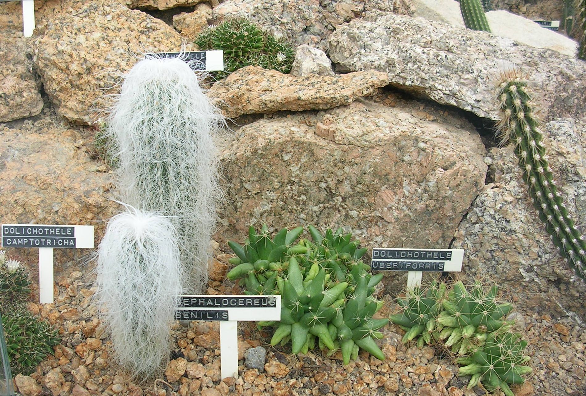 Liberec Botanical Garden.